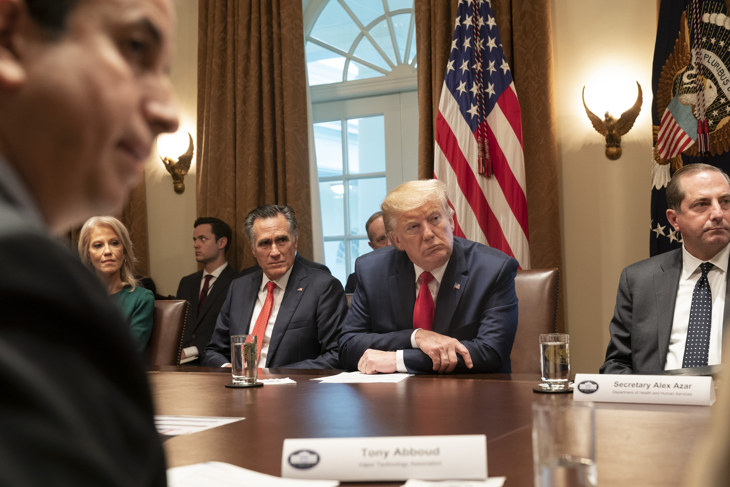 President Donald J. Trump joined by senior White House Counselor Kellyanne Conway, Senator Mitt Romney, R-Utah, and Secretary of Health and Human Services Secretary Alex Azar attends a White House Listening Session on Youth Vaping and Electronic Cigarette Epidemic Friday, Nov. 22, 2019, in the Cabinet Room of the White House. (Official White House Photo by Joyce N. Boghosian)